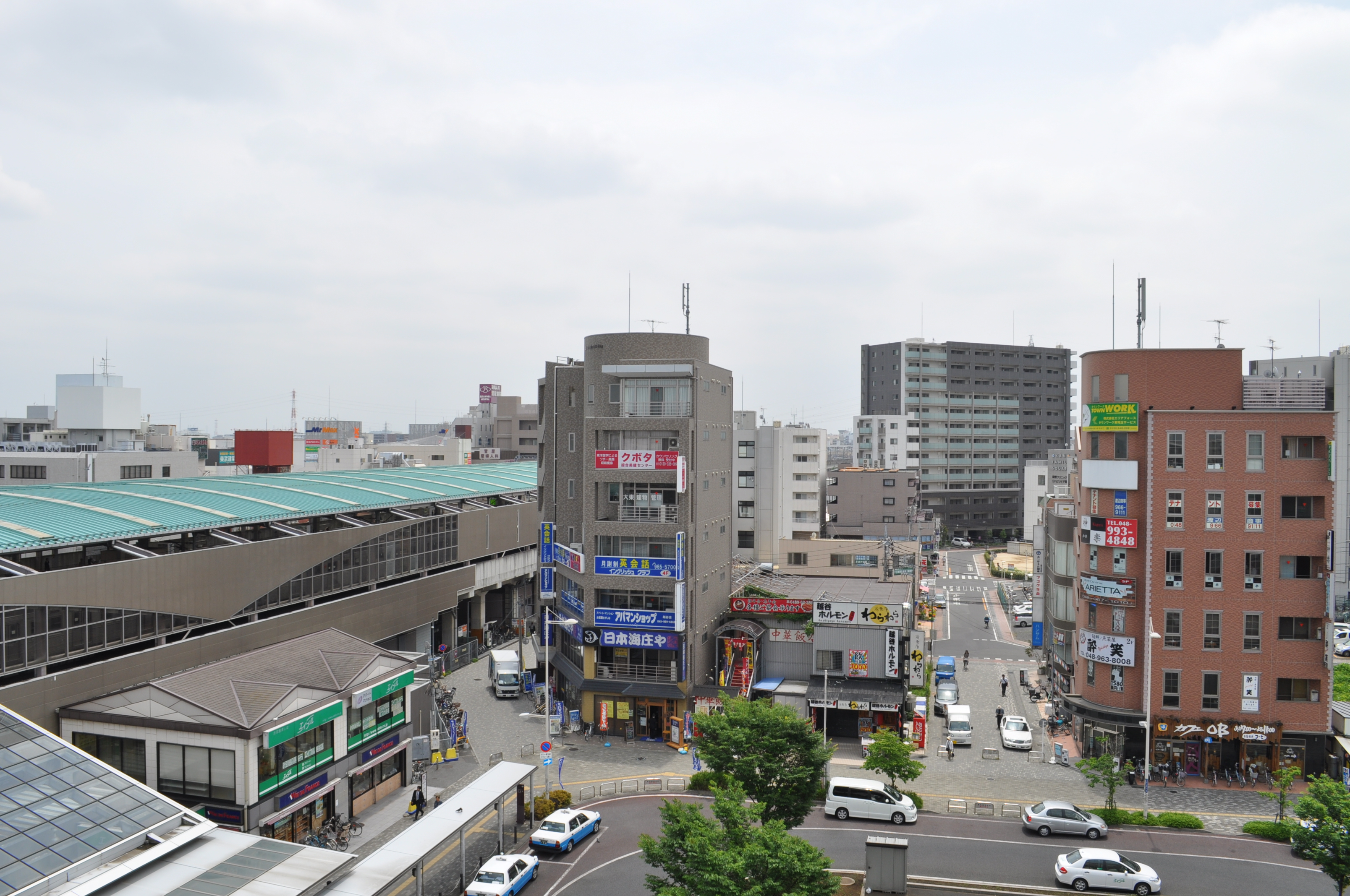 The west side of Koshigaya Station in Saitama Prefecture, Japan